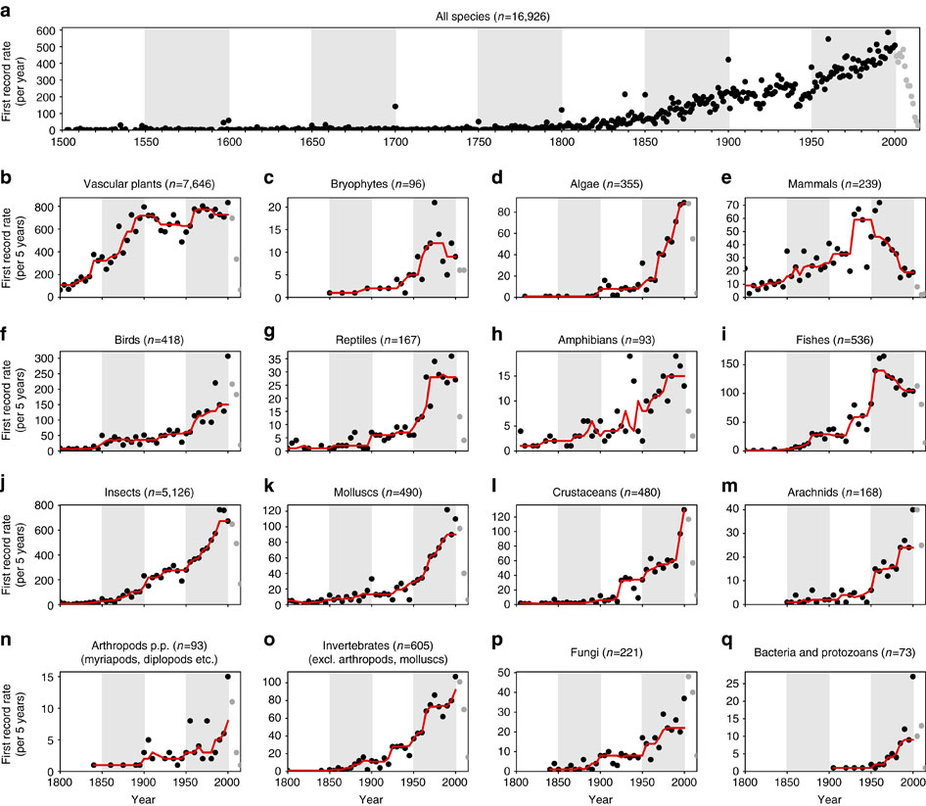 Number of first records of established alien species per region (mainlands and islands) for major taxonomic groups. Global temporal trends in first record rates (dots) for all species (a) and taxonomic groups (b–q) with the total number of established alien species during the respective time periods given in parentheses. Data after 2000 (grey dots) are incomplete because of the delay between sampling and publication, and therefore not included in the analysis. As first record rates were recorded on a regional scale, species may be included multiple times in one plot. (a) First record rates are the number of first records per year during 1500–2014. (b–q) First record rates constitute the number of first records per 5 years during 1800–2014 for various taxonomic groups. The trend is indicated by a running median with 25-year moving window (red line). For visualization, 50-year periods are distinguished by white/grey shading.